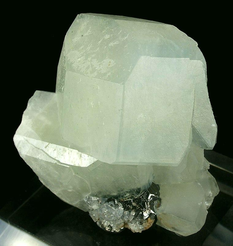 Datolite Locality: Charcas, Municipio de Charcas, San Luis Potosí, Mexico (Locality at ) Size: small cabinet, 6.2 x 5.3 x 2.8 cm Datolite Perched on a sliver of sphalerite and a smaller crystal of datolite is a superb, well formed, translucent, sea-foam-green crystal of datolite, measuring 4.5 cm across. Alternating faces of matte luster and glassy luster add to the sharp form of this specimen. For crystallography, these old datolites really are highly desirable, but so seldom seen. Romero had 2 of the best I know of, this and another, with sharp crystal habit and excellent aesthetics compared to the usual jumbled plates which came out (perhaps 20 years or more ago). An elegant example of this species, from a locale that most folks simple have never seen one from. Ex. Dr. Miguel Romero Collection.